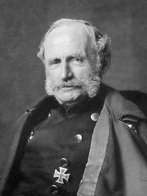 Albert of Saxony